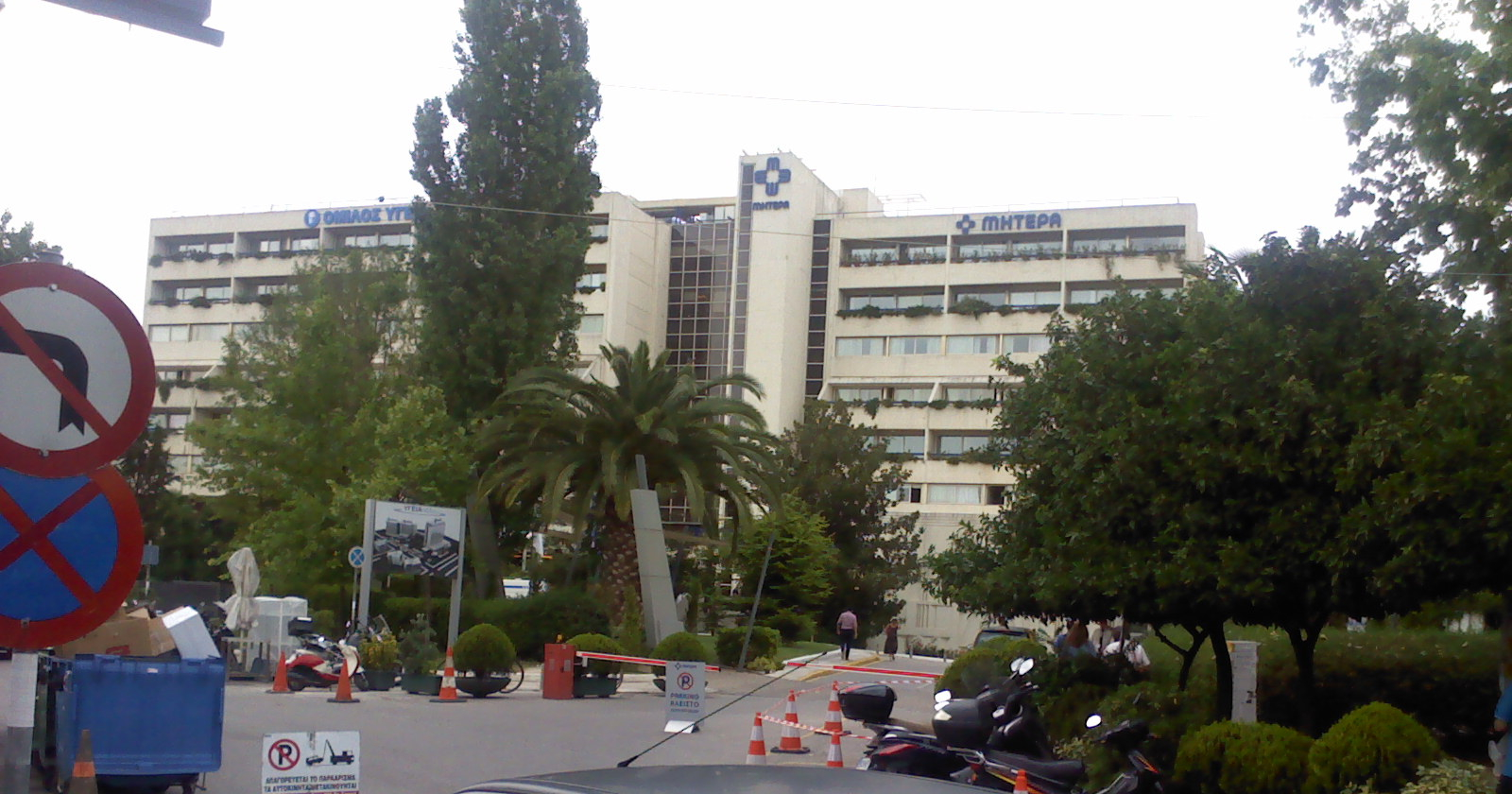 Hospital Mitera Agia Filothei